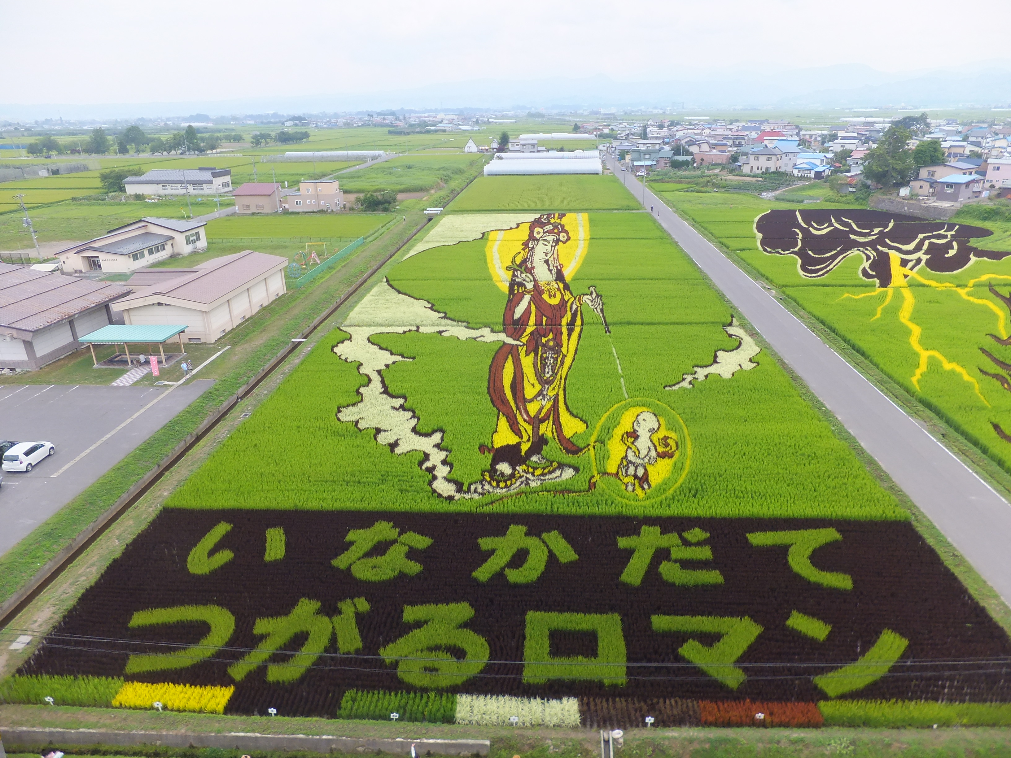 Tanbo art, Inakadate, Aomori Prefecture. Hibo Kannon (“Kannon the Merciful Mother”) from the 2012 work “Hibo Kannon and Acala”. Viewed from village administation building.